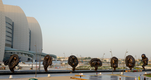 Qatar Museums Authority unveils Public Art commission by British artist Damien Hirst Statues 8-14, credit Nadine Al Koudsi